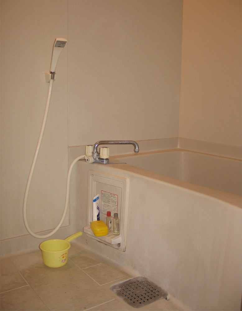 A modern acrylic ofuro in a Japanese apartment. The area for washing is next to the tub, which is somewhat deeper and is used for soaking and relaxing.